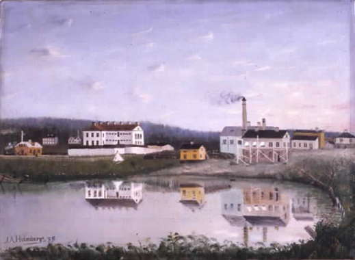 The small lake Bünsowska tjärn in Sundsvall, Sweden. The painting was made in 1889, the year after the great fire, and shows the lake and the buildings Linderbergs gjuteri, and an old prison (Kronohäktet).